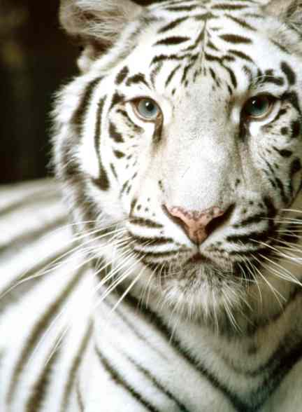 white tiger